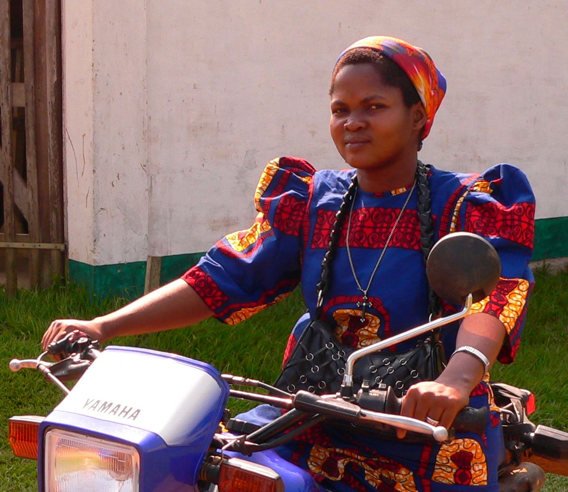 A Catholic nun in distinctive brightly coloured clothes rides a Yamaha.